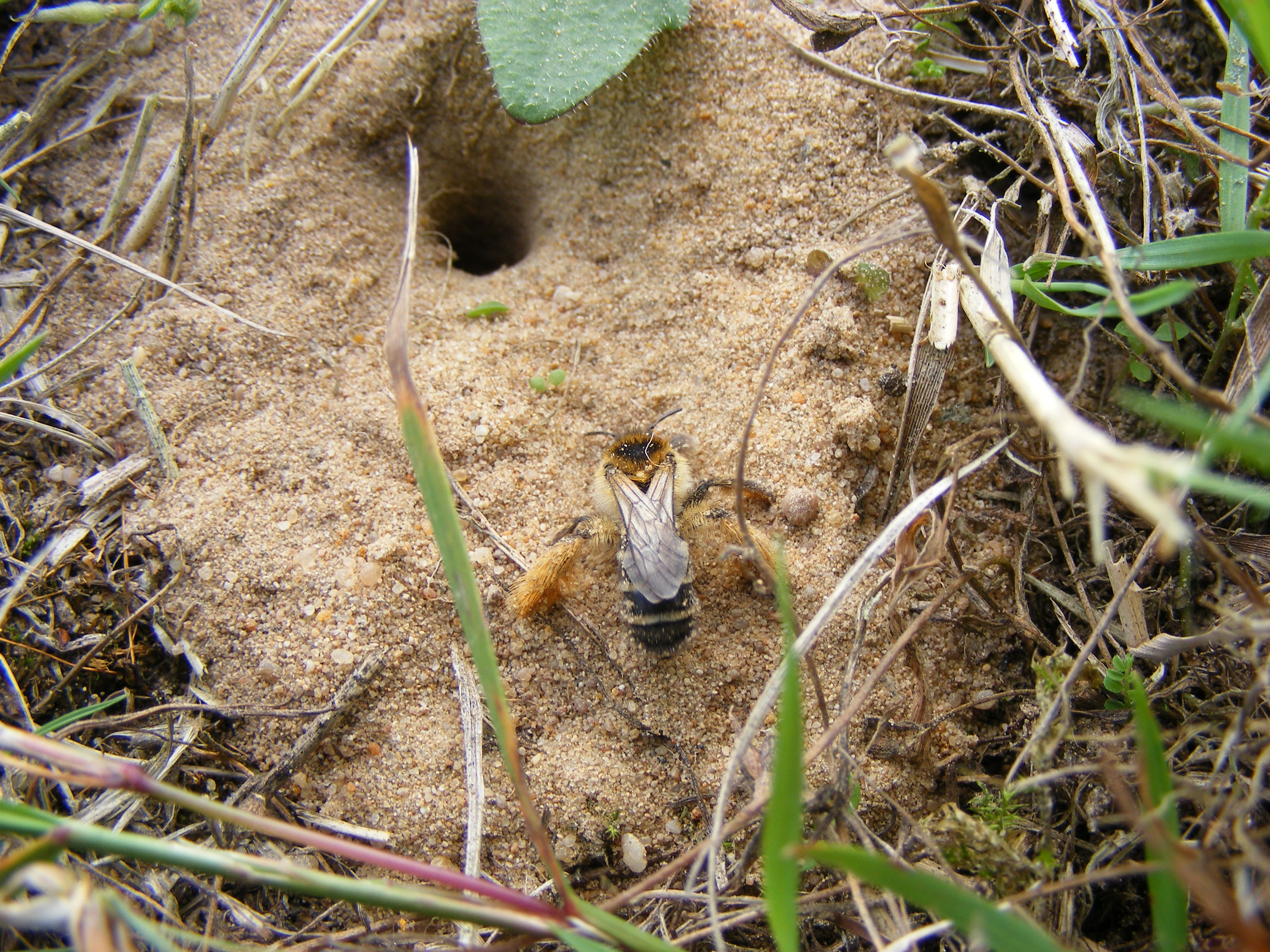 This photo shows Dasypoda altercator digging